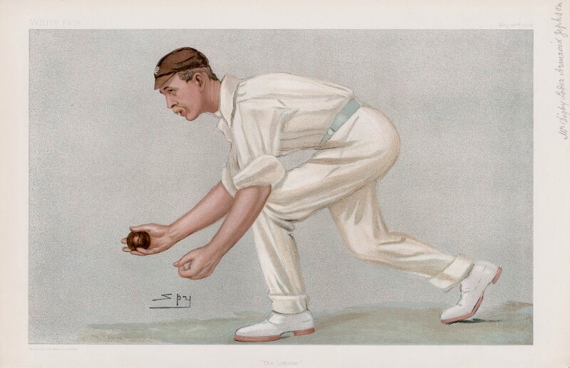 Caricature of Digby Jephson. Caption read "The Lobster".